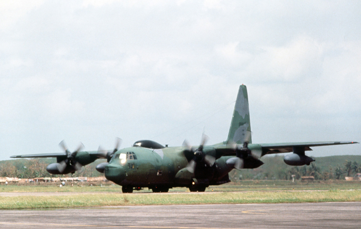 A 17th Special Operations Squadron HC-130 taxis on the runway at Chittagong Air Base April 30, 1991, after arriving to support disaster relief efforts as part of Operation SEA ANGEL after a cyclone devastated areas in Bangladesh. (U.S. Air Force photo by Staff Sgt. Val Gempis)